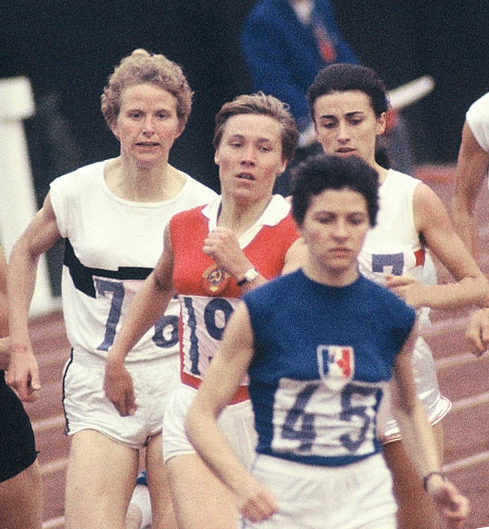 Women 800 m final 1964 Olympics. Left-right: Antje Gleichfeld, Laine Kallas, Maryvonne Dupureur (front), Zsuzsa Szabó